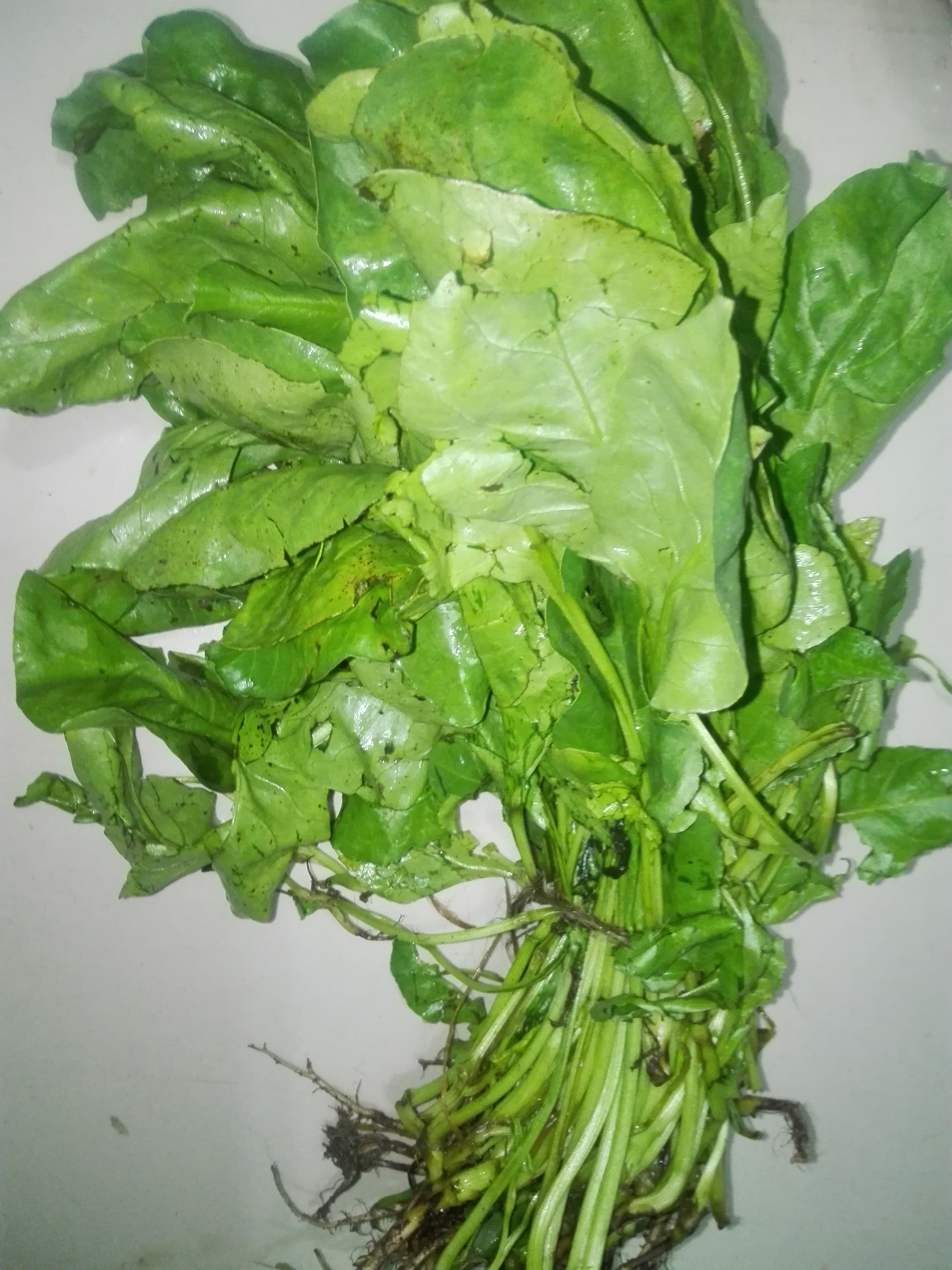 spinach from Bangladesh which is available at winter season